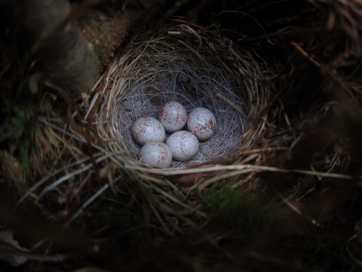 A Nashville Warbler nest with five eggs in Bellefeuille, Quebec, Canada